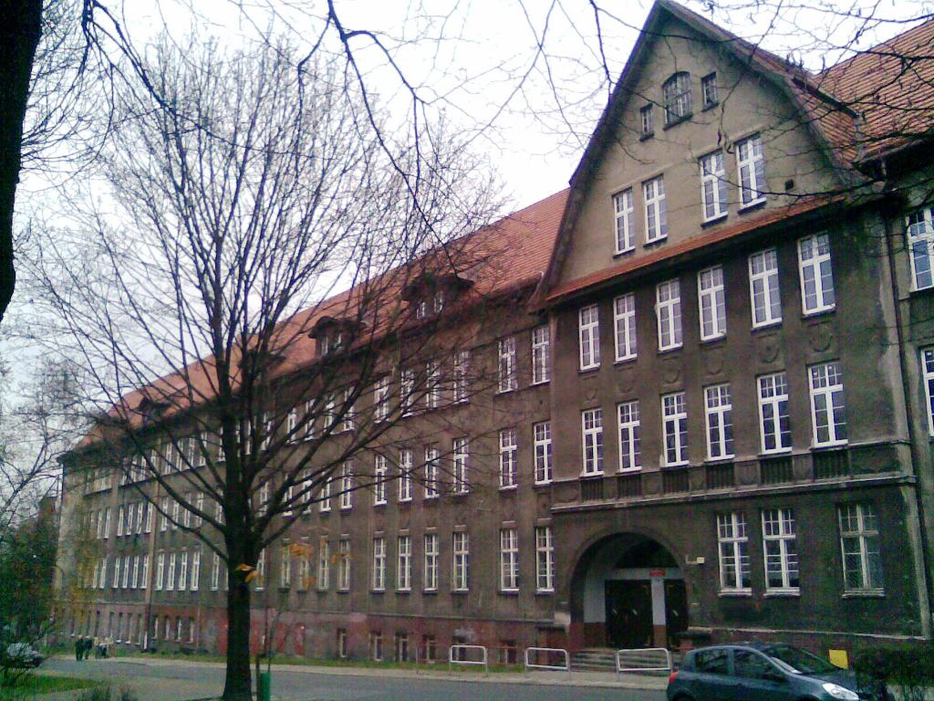 August Hlond Square in Katowice (Poland)